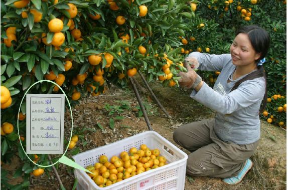 Cherry Orange harvest